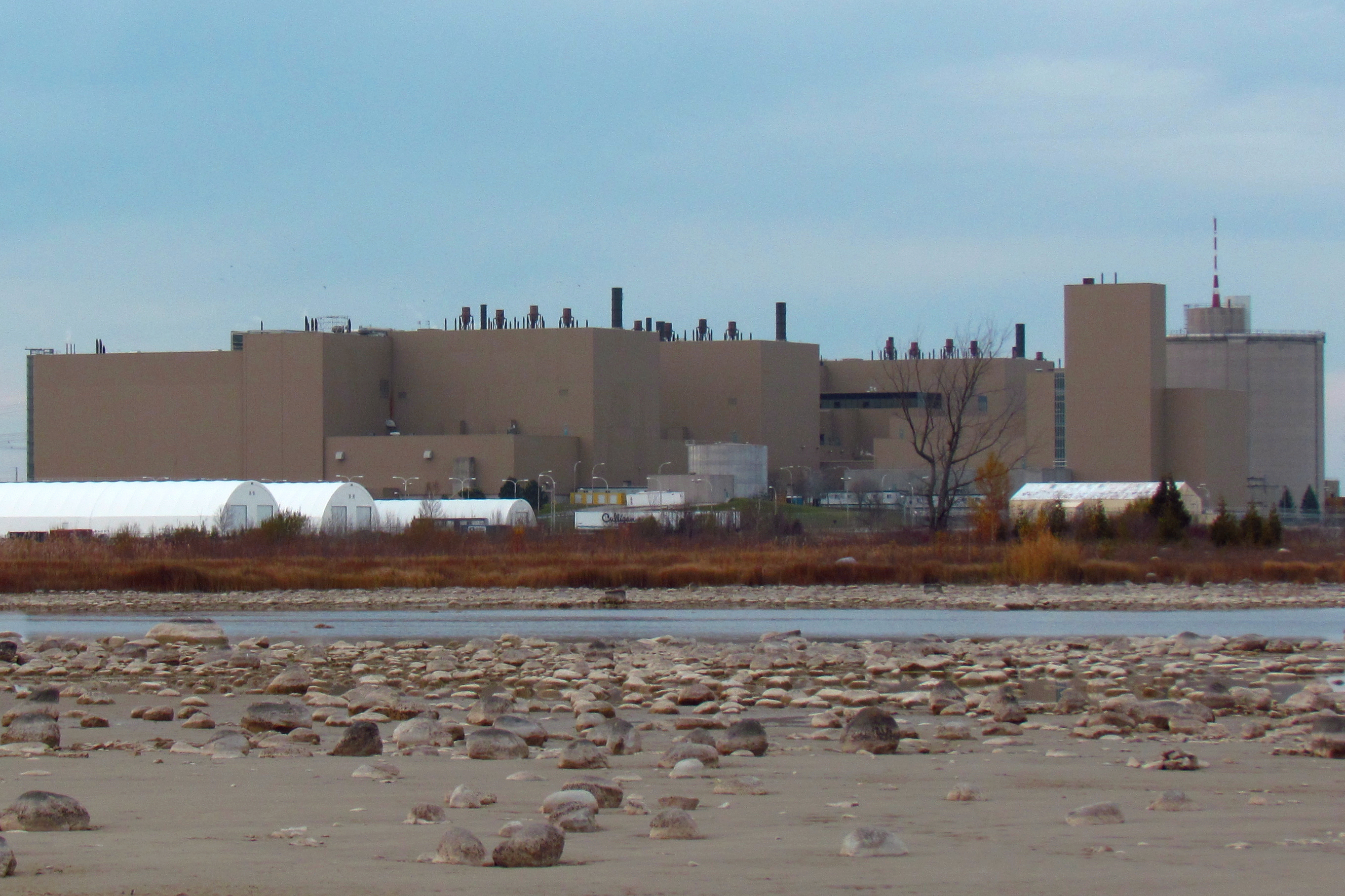 Bruce Nuclear Generating Station, Plant A, Tiverton, Ontario